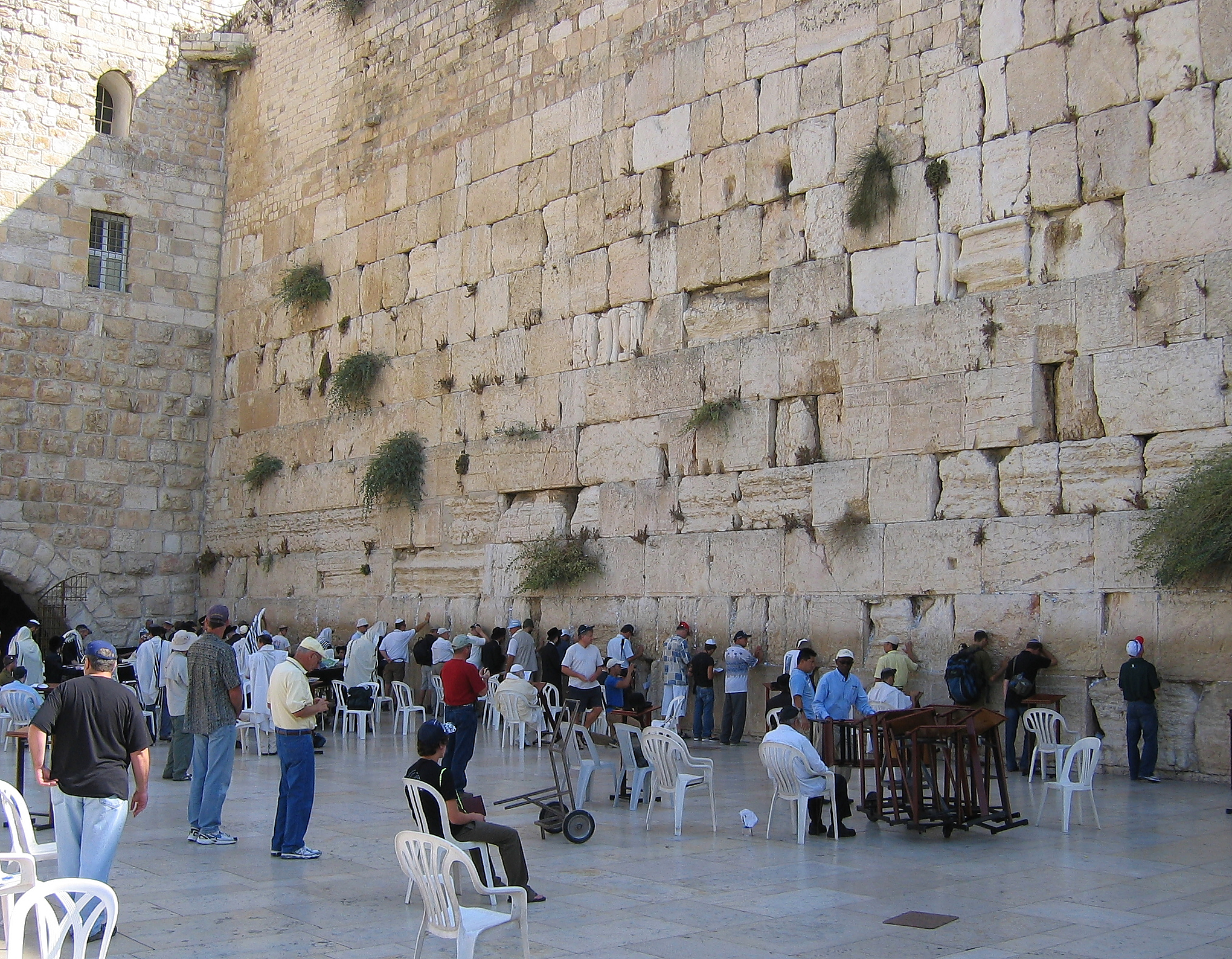 The men's side of the the Western Wall.